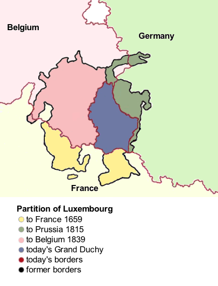 Map showing the partition of Luxembourg through the centuries. I cleaned up the original file (LuxembourgPartitionsMap_english.jpg) and saved it in Portable Network Graphics format.